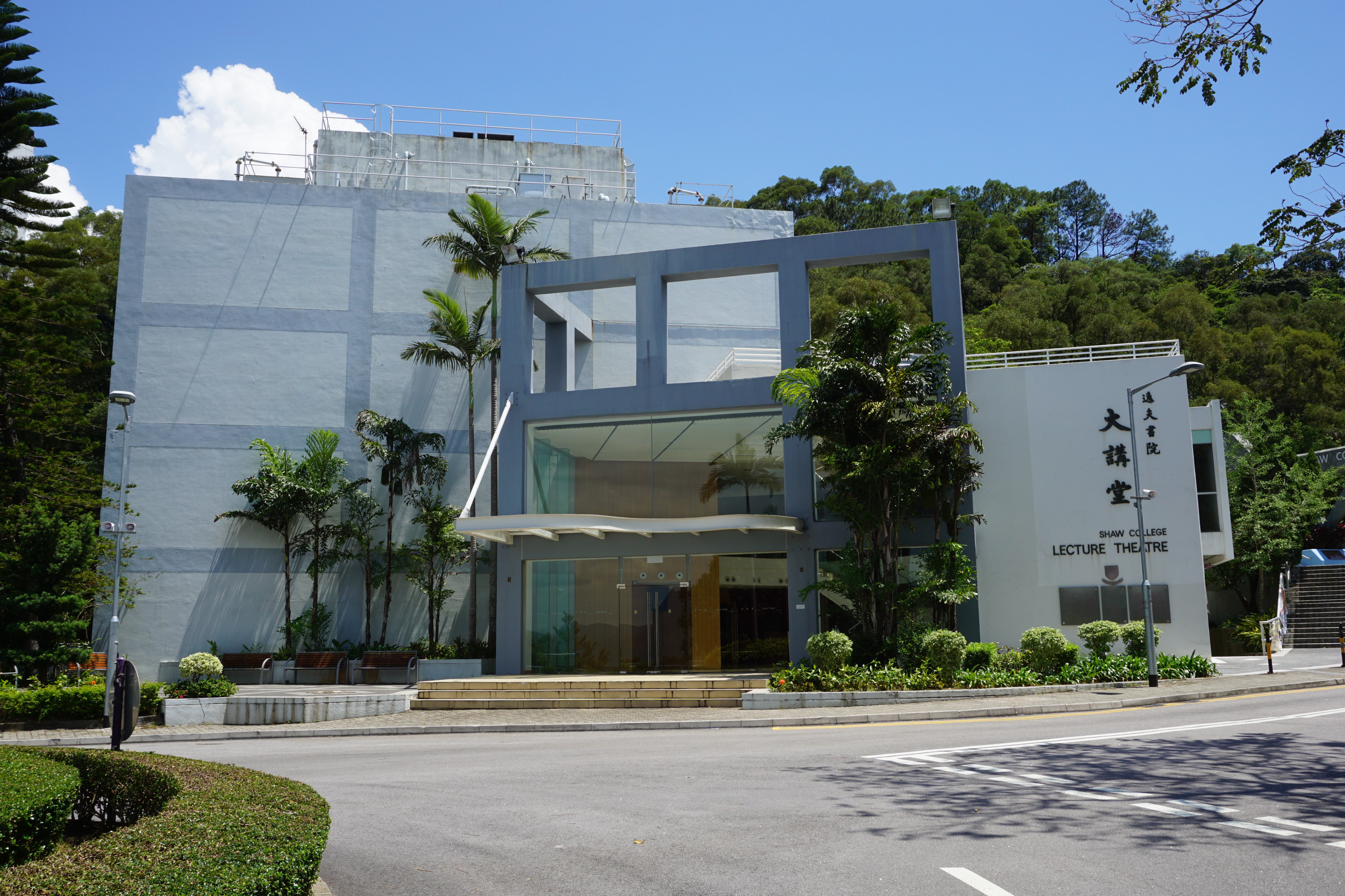 Shaw College Lecture Theatre in Ma Liu Shui, Hong Kong.